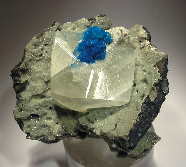 Cavansite, Calcite Locality: Wagholi Quarry, Wagholi, Pune District (Poonah District), Maharashtra, India (Locality at ) A VERY unusual association! Cavansite rarely occurs with calcite and even more rarely with the classic indian gem rhombs, such as this one. In person it is even more breathtaking because the cavansite looks like it is literally erupting and bubbling out of the core of the calcite (which itself is gemmier in person than in the pics) 7.5 x 5.5 x 5.5 cm